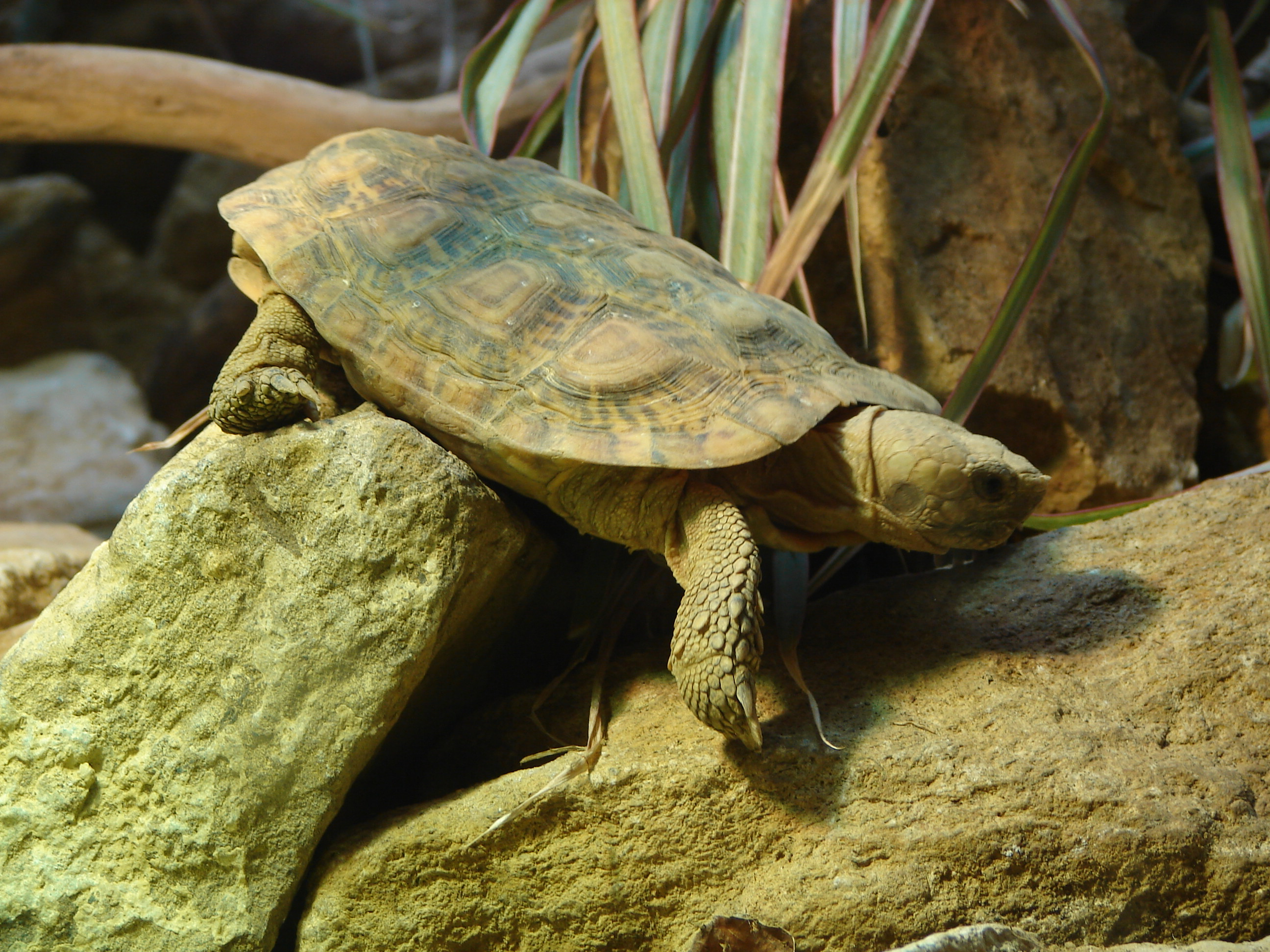 Images from London Zoo. Location: NW1 4RY